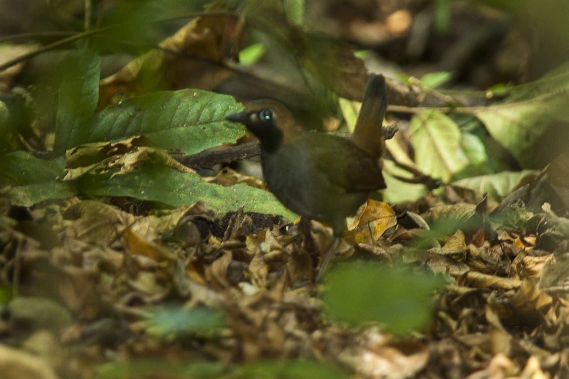 Black-faced Antthrush - Panama_H8O2792